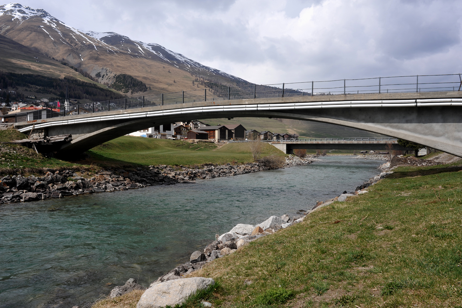 Bridge over the Inn in Zuoz by Robert Maillart, built 1901; Graubünden, Switzerland.